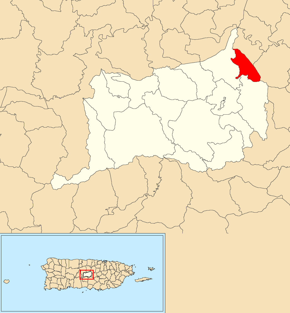 Mata de Cañas, Orocovis, Puerto Rico locator map